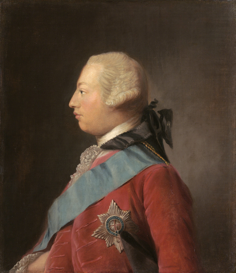 Portrait of George III of the United Kingdom (1738-1820)